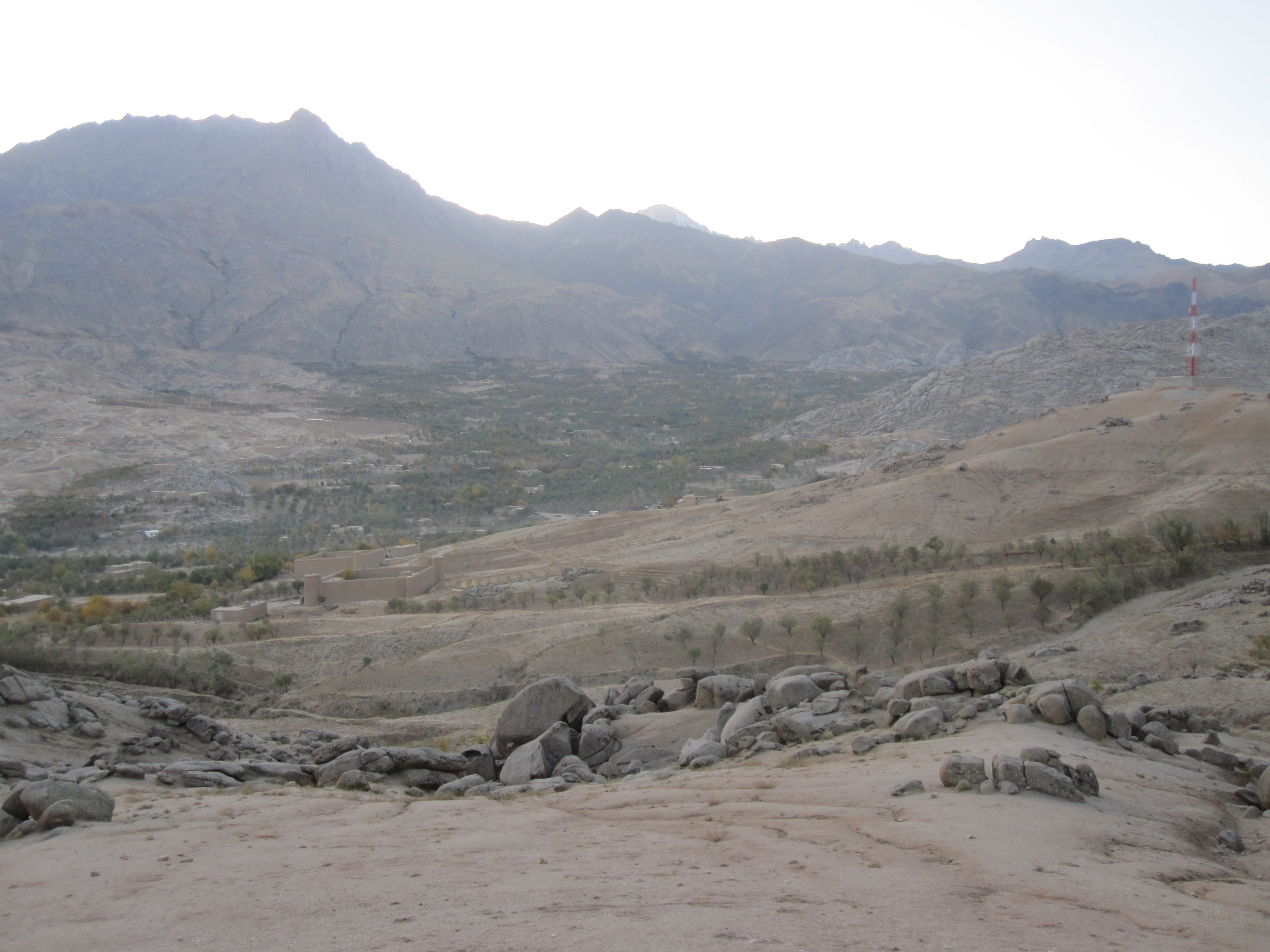 A view of the town of Nili. Nilli is provincial center of Daykundi Province in Afghanistan.